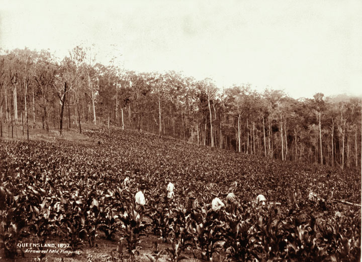 Arrowroot field with 6 workers, [Pimpama].